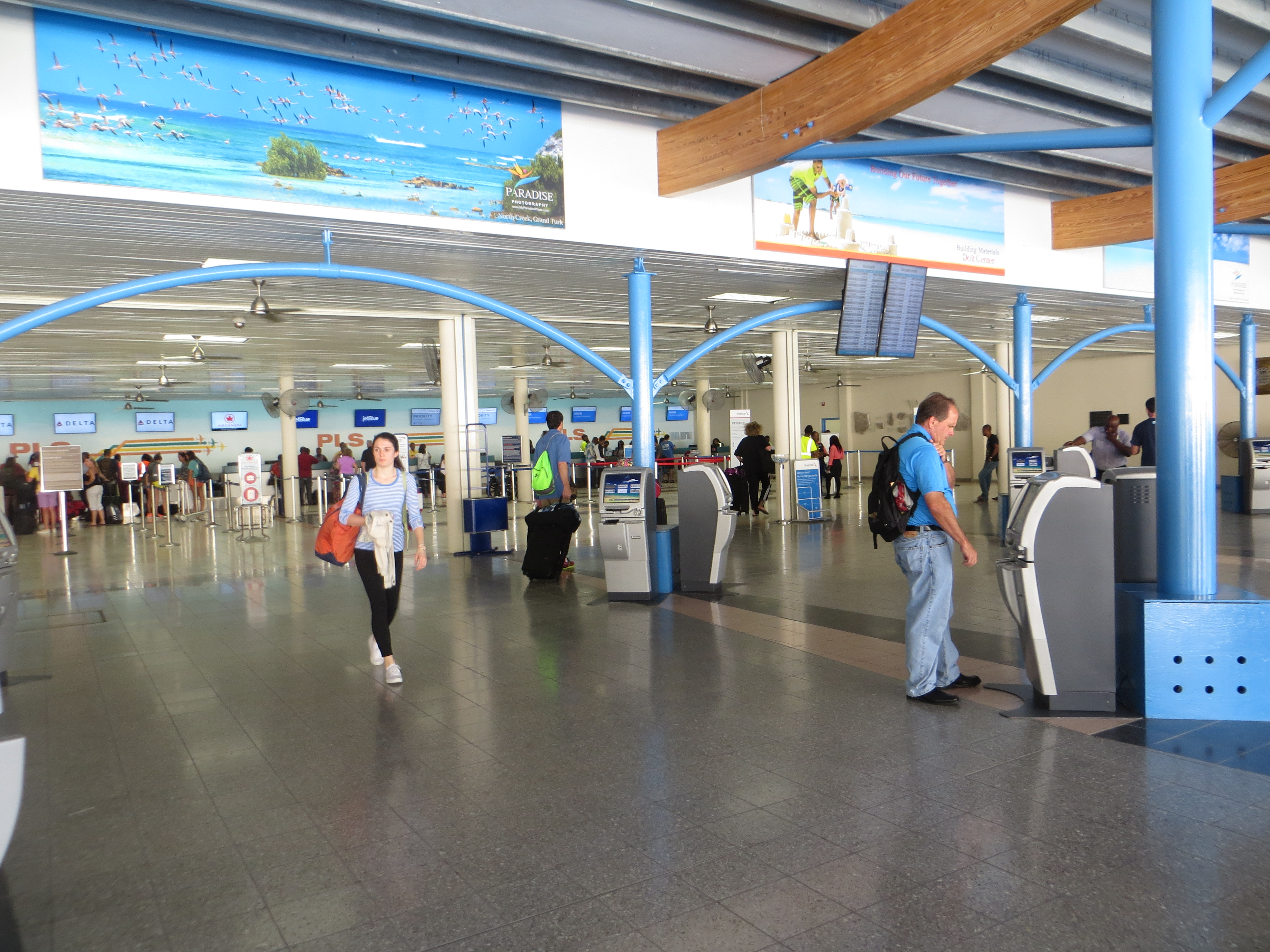 Check-in area at Providenciales Airport, Turks and Caicos